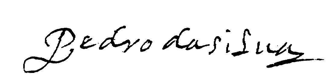 Signature of Pedro da Silva (Da Sylva), an early mail carrier (courier) in New France.